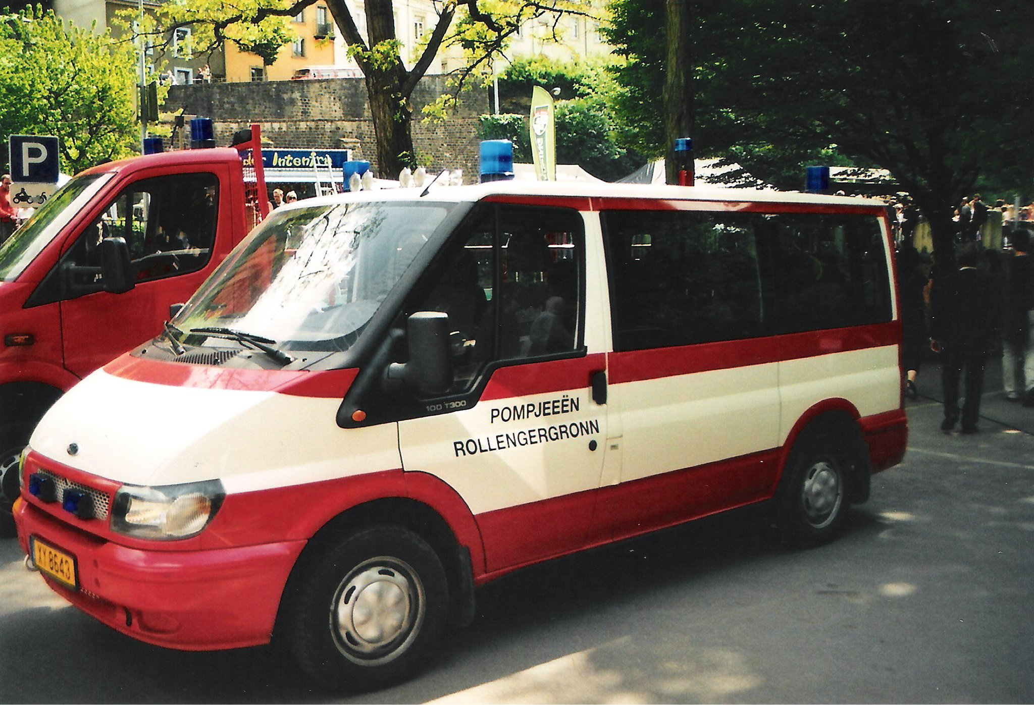 Ford Transit, Rollengergronn (Luxembourg) Fire Department